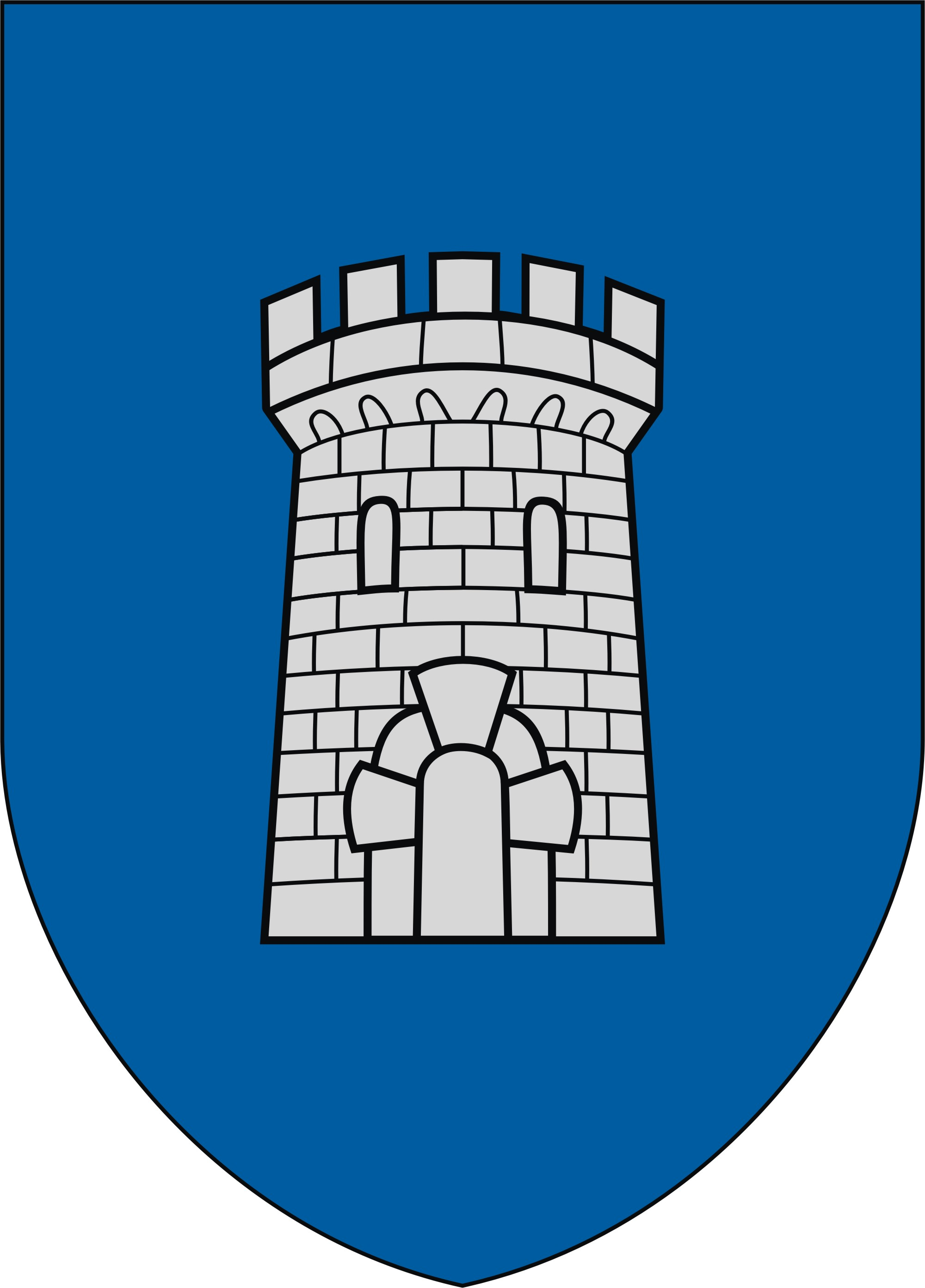 Coat of arms of Daraboshegy, Hungary